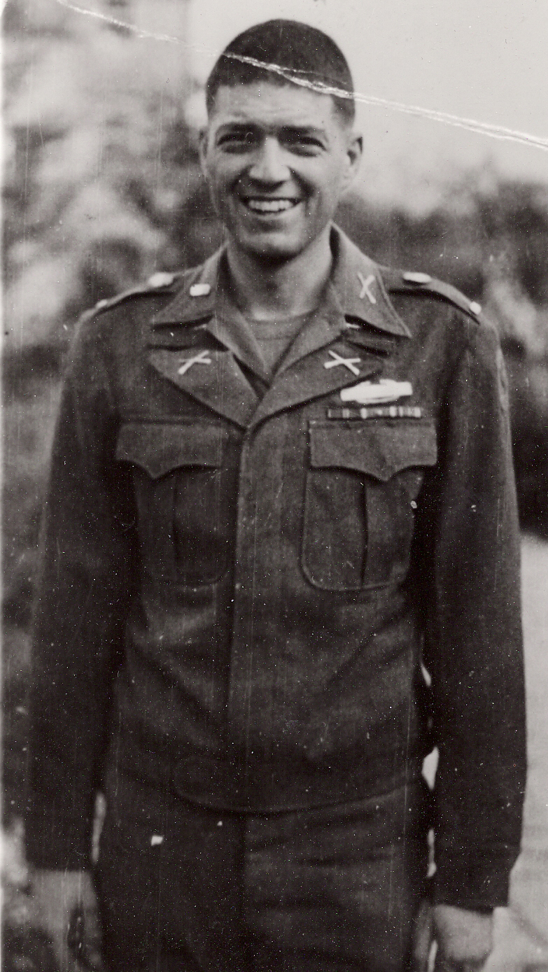 United States District Judge Tom Stagg, pictured as a United States Army lieutenant (whether 2nd or 1st not discernible) during his World War II service.